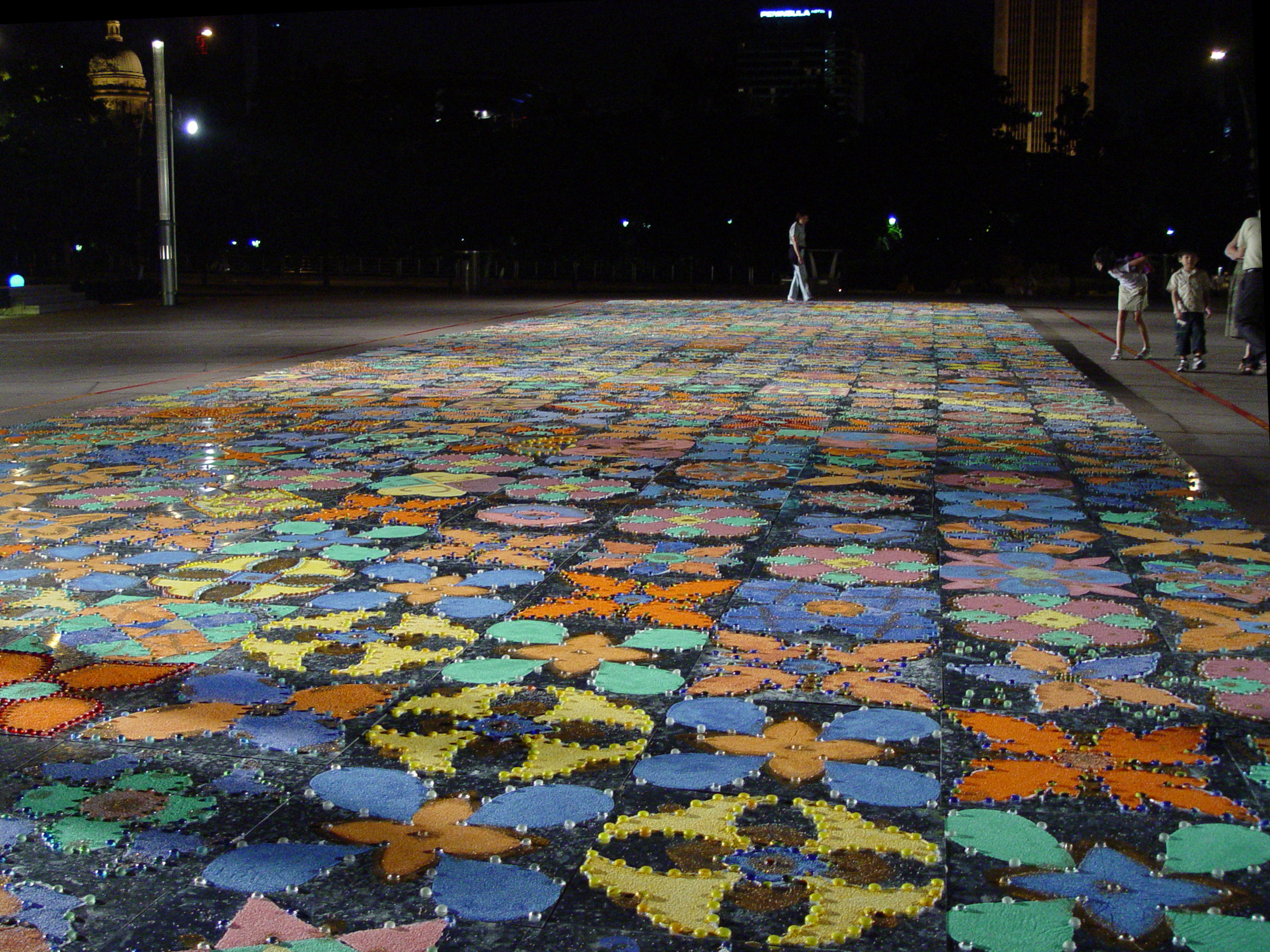 Rangoli, indian floor art